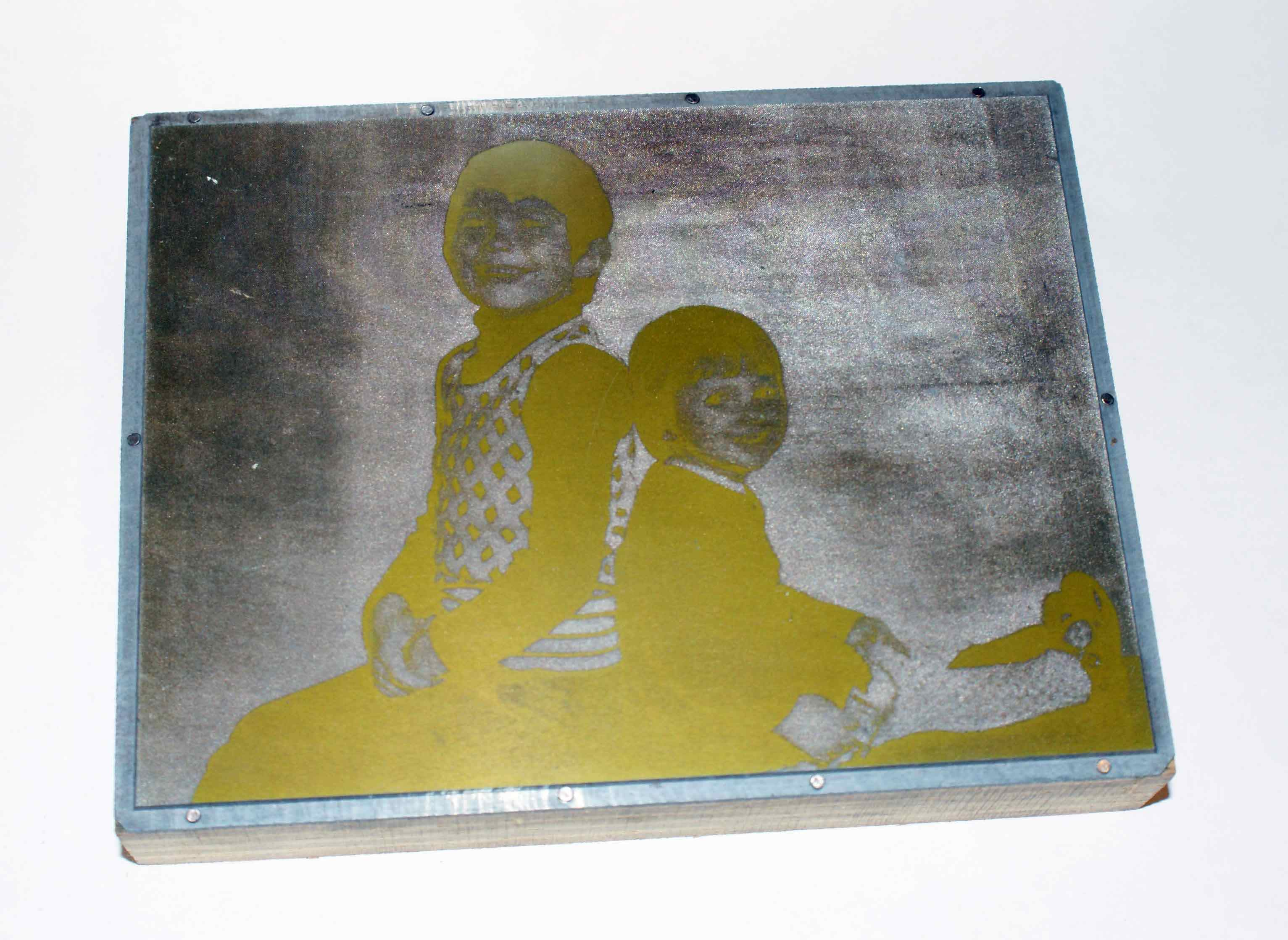 Wooden printing block with metal printing plate depicting two children sitting back to back. Accession Number: HH4748/15/88 Plates are the illustrations separately printed and inserted into a book once it is bound. The copper plate is the master surface from which printing is done. Used at Holmes McDougall, Edinburgh. Holmes McDougall were educational publishers based at 137 - 141 Leith Walk, Edinburgh. Edinburgh City of Print is a joint project between City of Edinburgh Museums and the Scottish Archive of Print and Publishing History Records (SAPPHIRE). The project aims to catalogue and make accessible the wealth of printing collections held by City of Edinburgh Museums. For more information about the project please visit